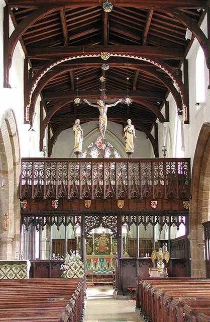 St Mary, Higham Ferrers, Northamptonshire - East end